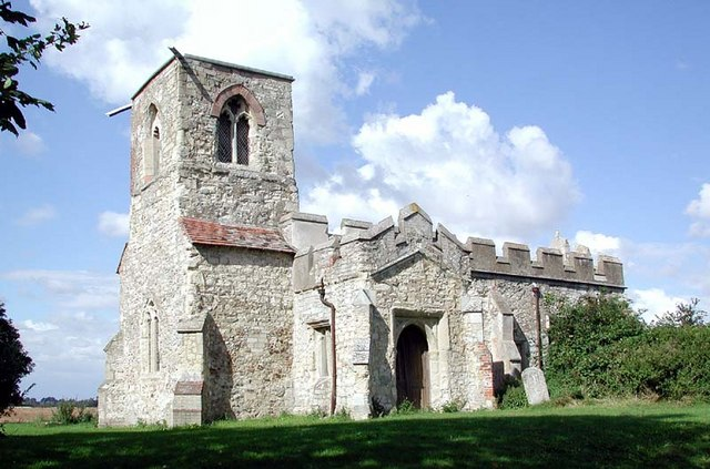 St Mary Magdalene's parish church, Caldecote, Hertfordshire, seen from the south